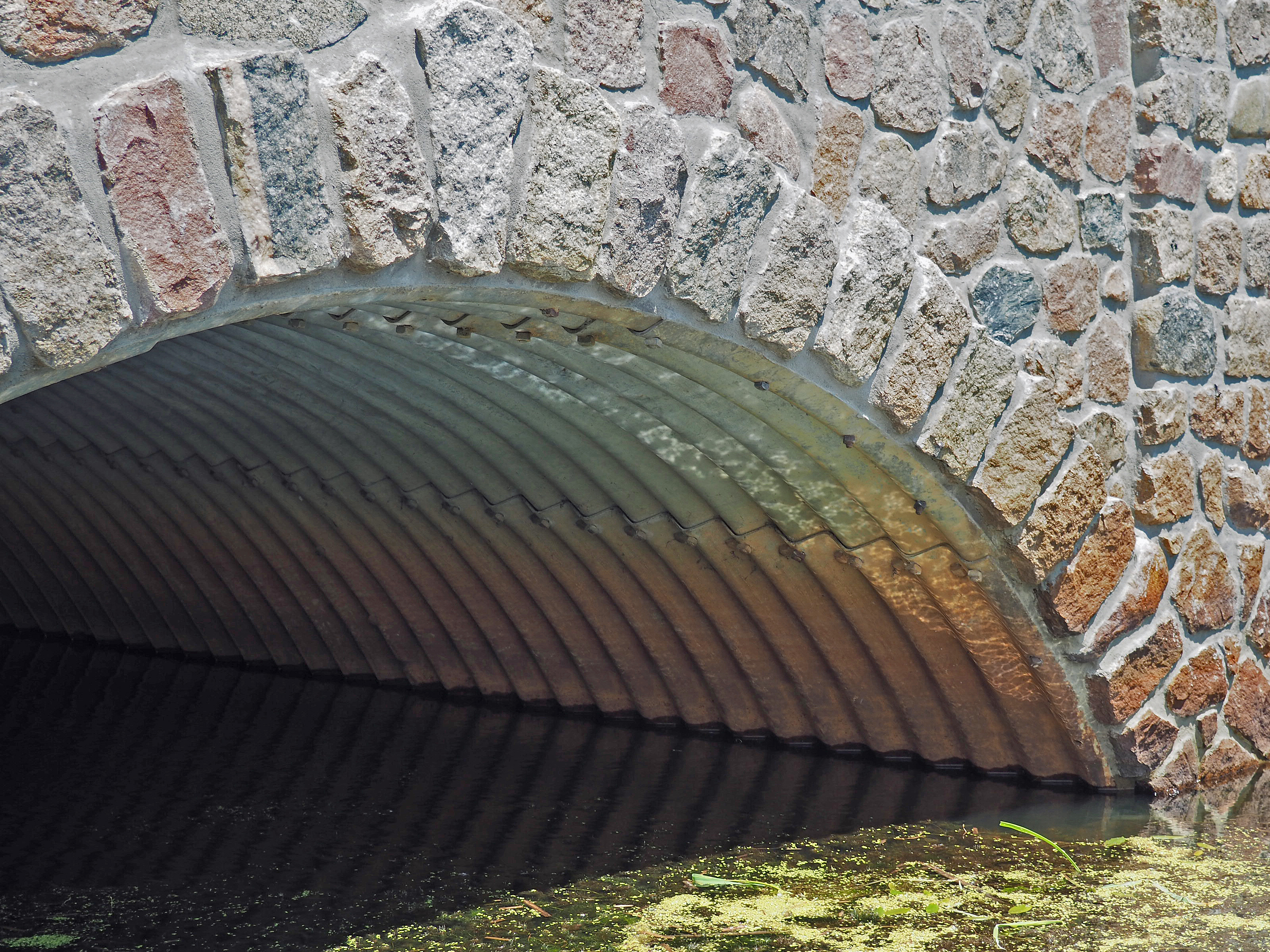 Close-up showing the modular iron "Multi Plate" construction and masonry façade, Bridge L7075, 290th St. over Turtle Creek, Hartford Township, Minnesota, USA. Viewed from the southwest.